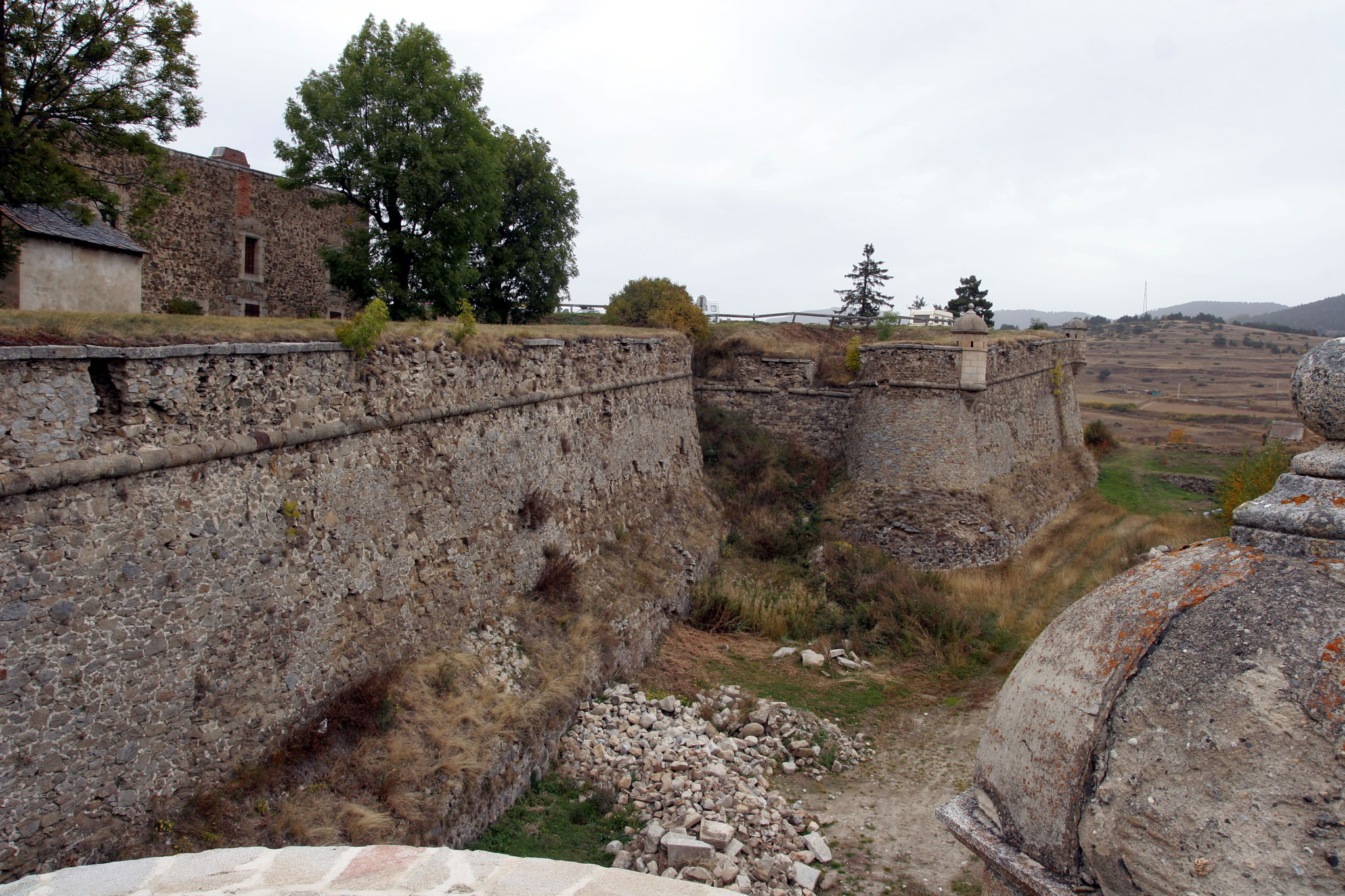 Mont-Louis in October 2008